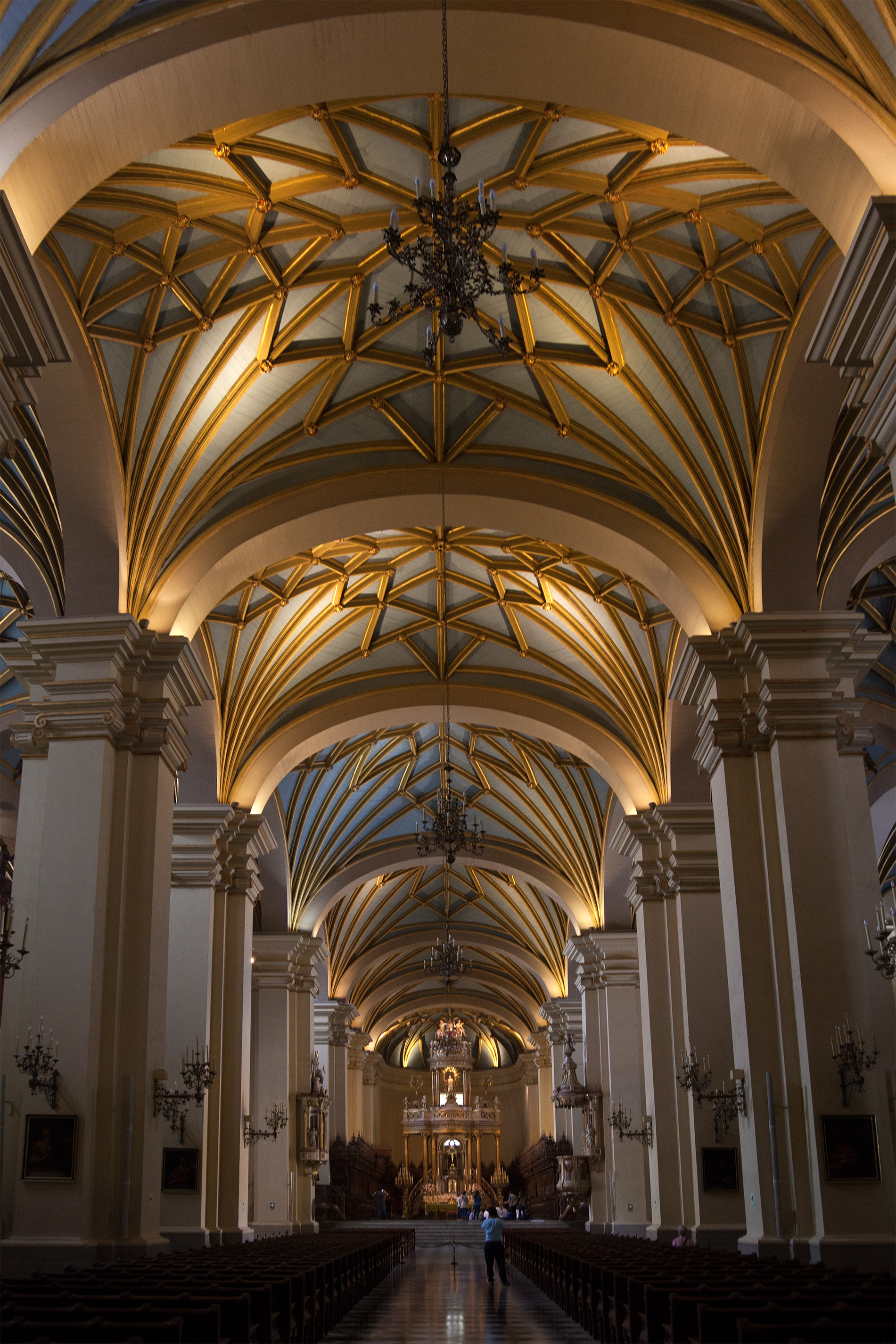 Lima (Peru), cathedral, interior